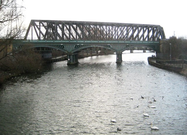 Peterborough: Nene Viaduct